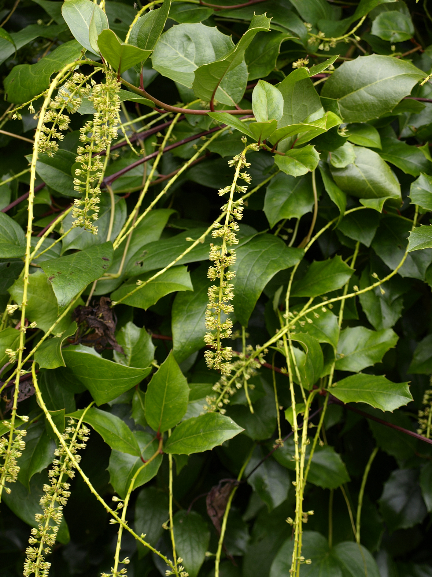 Itea ilicifolia Stockton Bury Gardens, Herefordshire, UK